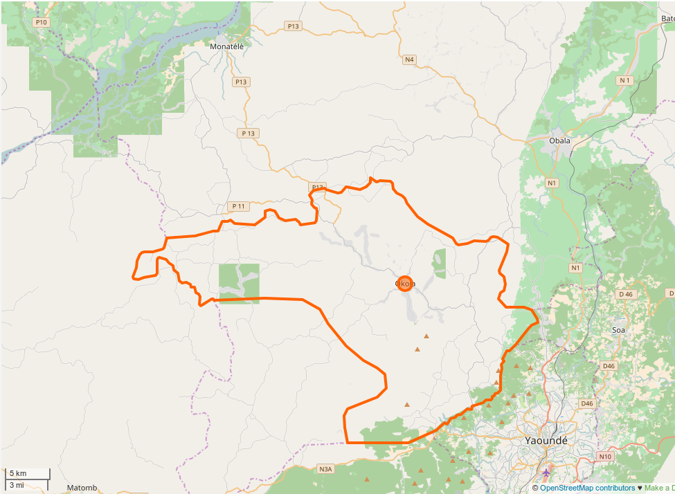 Okala in Cameroon ː city boundaries with OSM. This map may be incomplete, and may contain errors. Don't rely solely on it for navigation.